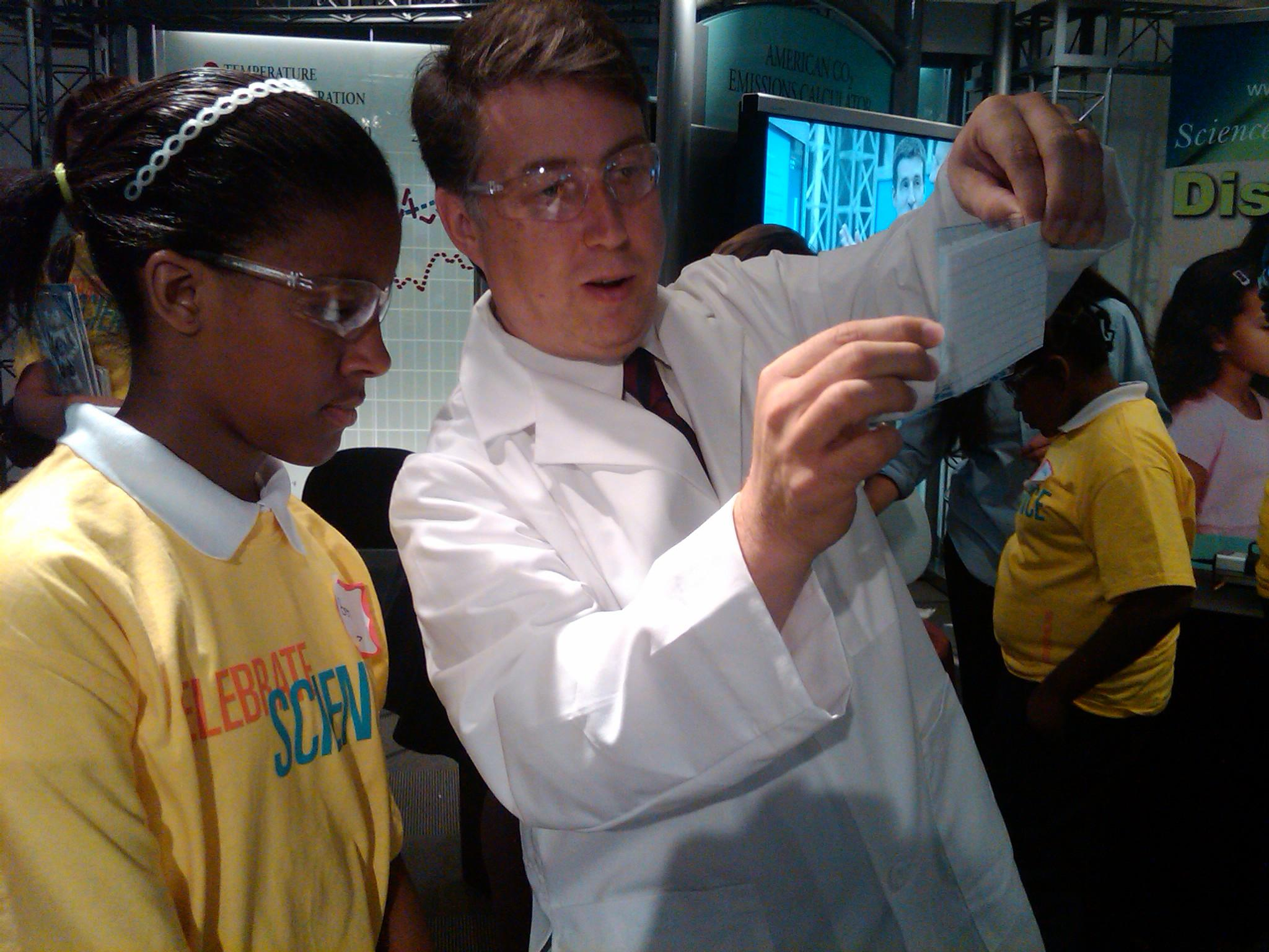 EPA Assistant Administrator for Research and Development, Paul Anastas, instructed elementary and middle school students in a hands-on chemistry activity at the Marian Koshland Science Museum of the National Academy of Sciences in Washington, D.C on Sept. 29, 2010.